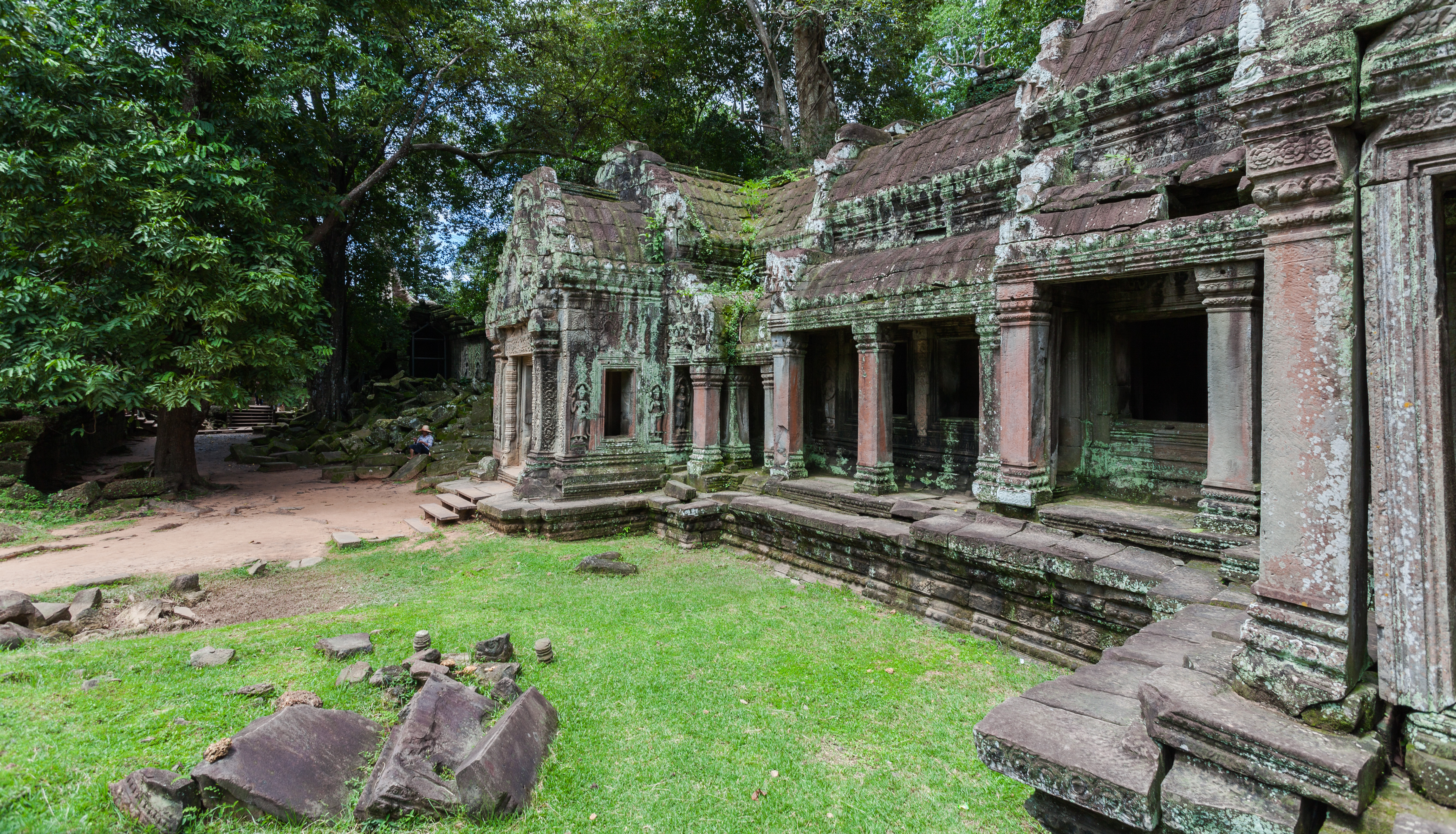 Ta Phrom, Angkor, Cambodia